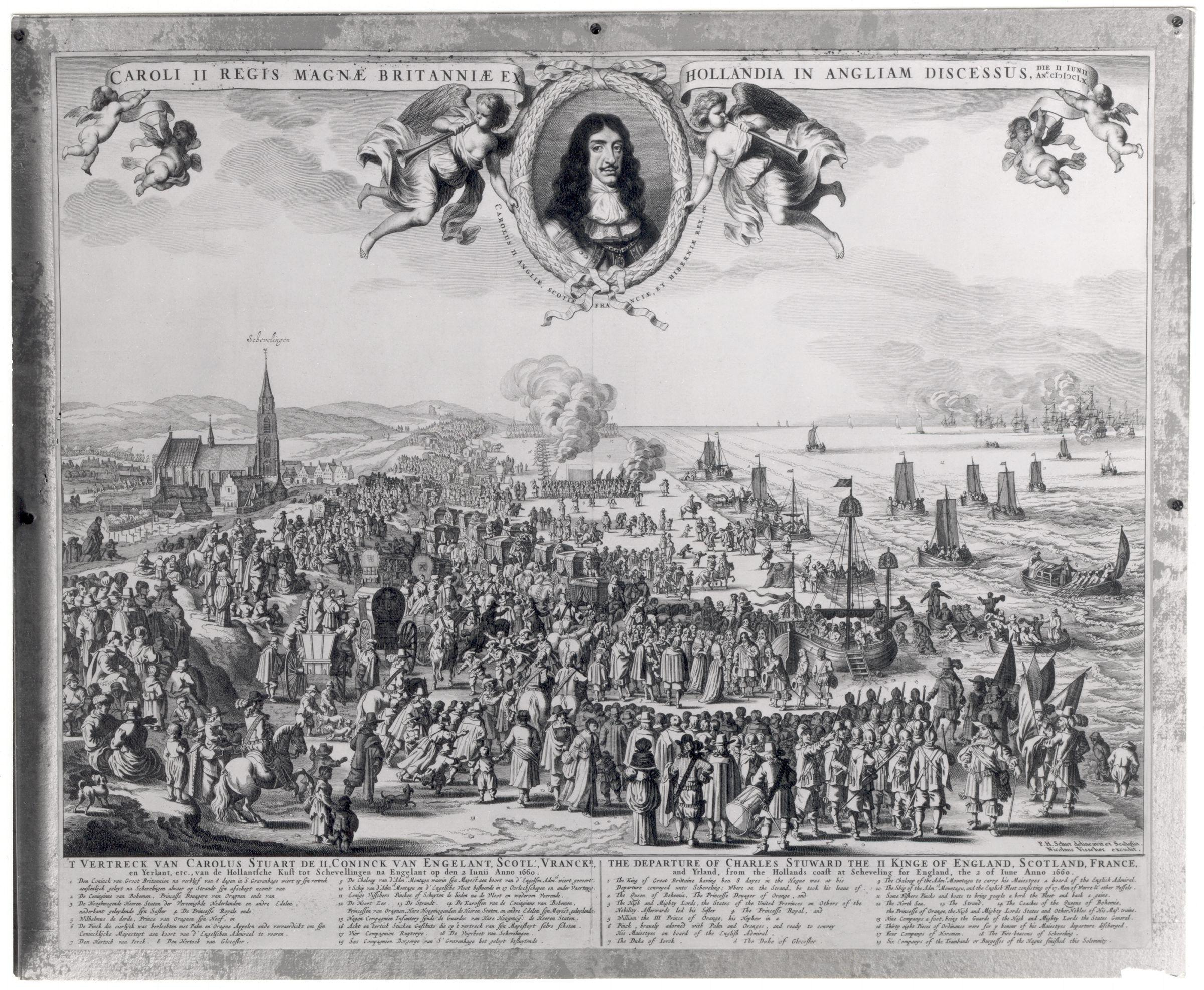 Departure from Holland to England (King Charles II), by Pieter Hendricksz Schut. All images in this batch have a known author, but have manually examined for strong evidence that the author was dead before 1939, such as approximate death dates, birth dates, floruit dates, and publication dates.